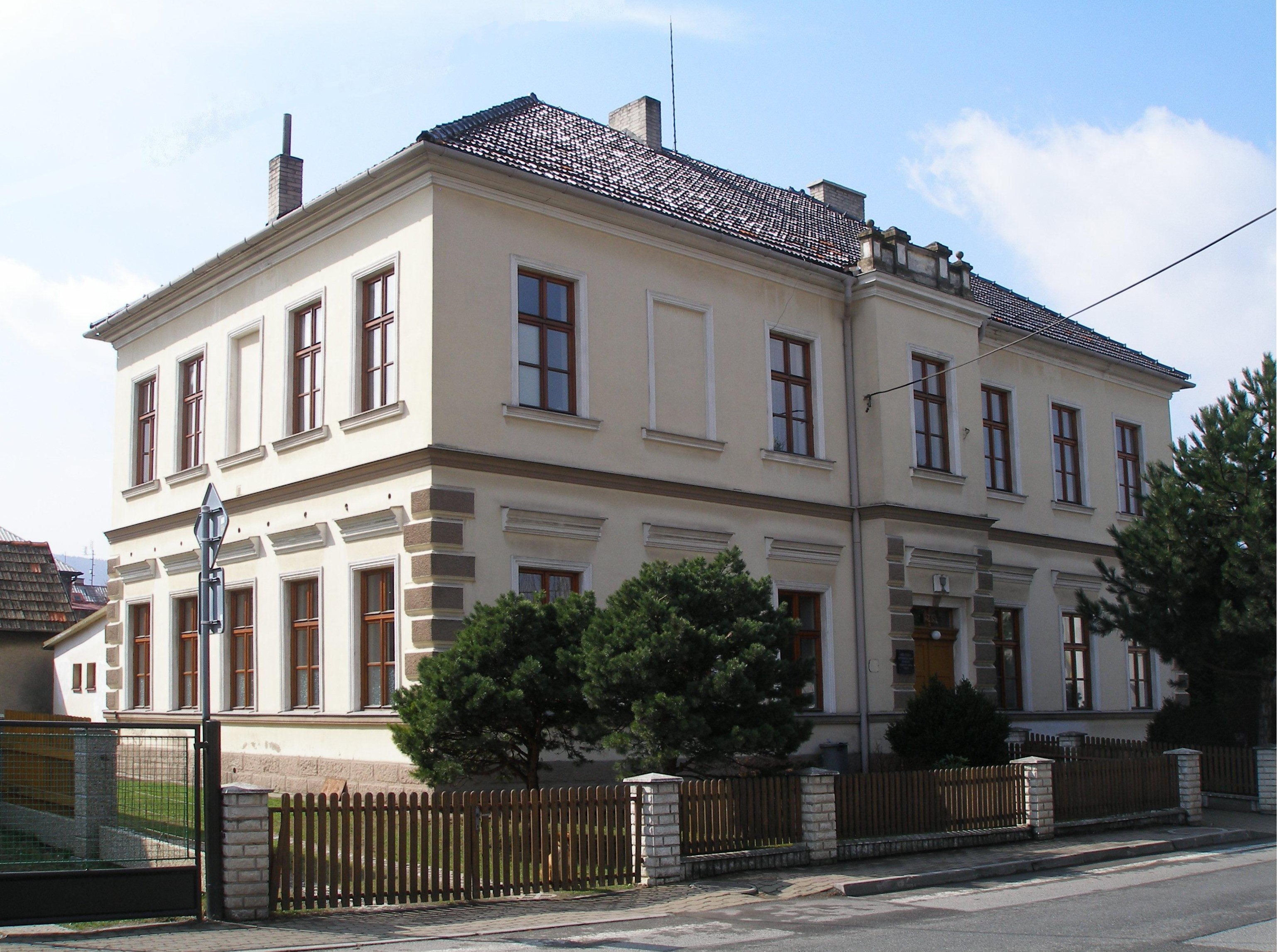 Former evangelical rectory in Mořkov.